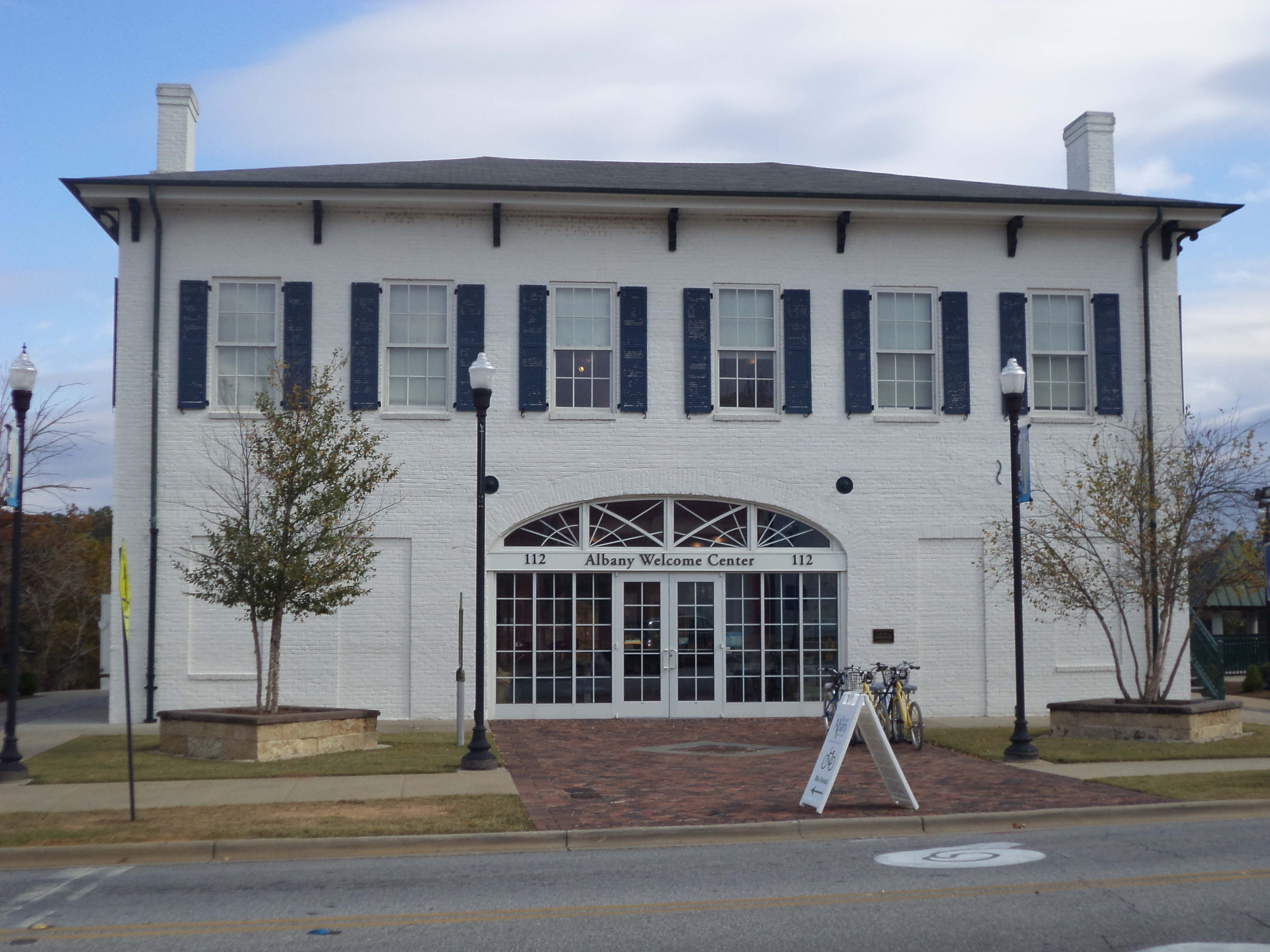 Bridge House (West face), Albany, Dougherty County, Georgia